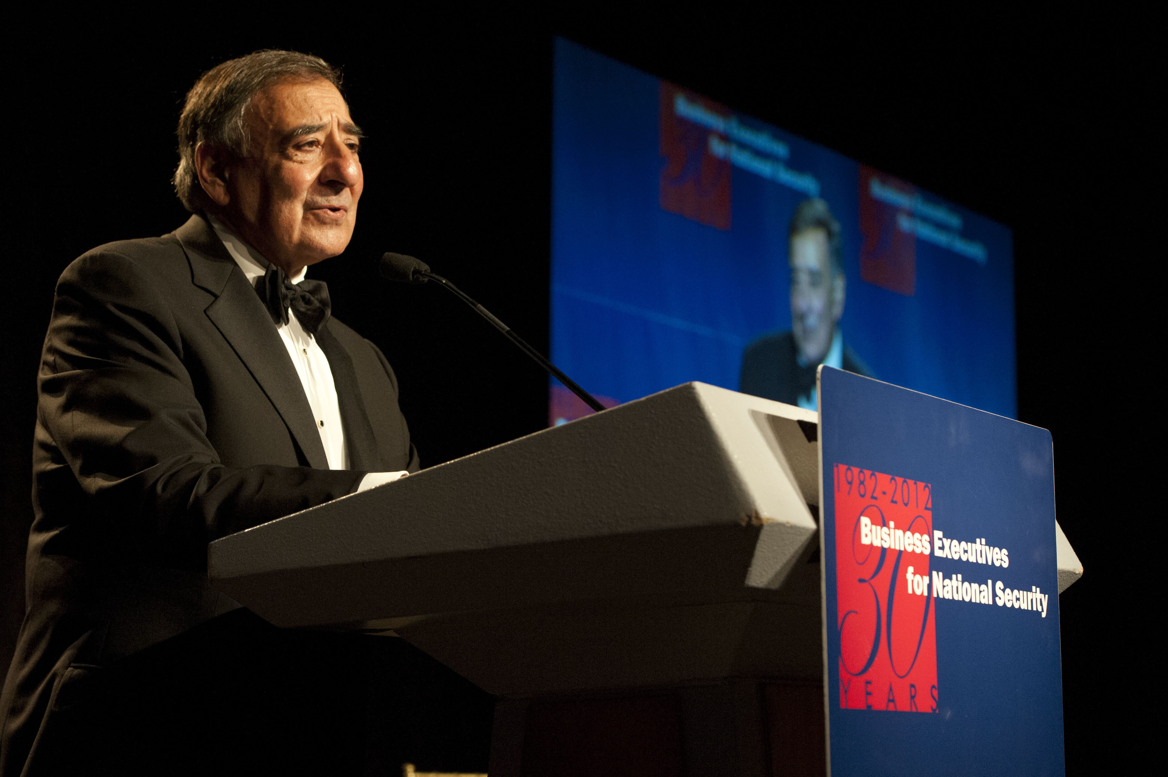 Secretary of Defense Leon E. Panetta delivers a speech on the effects of cyber attacks at the Business Executives for National Security dinner in New York City Oct 11, 2012. Internet marketing Phoenix DoD photo by Erin A. Kirk-Cuomo